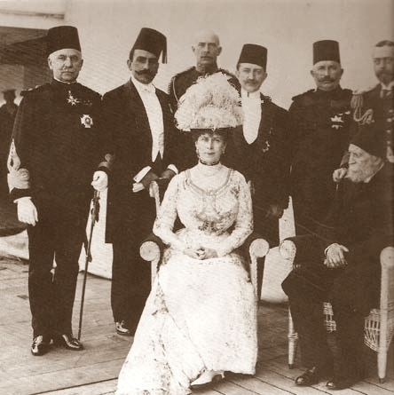 Photograph taken aboard HMS Medina at Port Said in December 1911. It was taken during a stopover of the ship bringing King George V and Queen Mary to India for the Delhi Durbar in the course of which George V will be formally proclaimed Emperor of India. Sitting next to Queen Mary is Kâmil Pasha, four-time grand vizier of Turkey. A well-known anglophile and an advocate of a British-style constitutional monarchy for the Ottoman Empire, the 78-year-old Kâmil Pasha, who spoke English, represented Sultan Mehmed V and the Young Turk government. Standing, from left to right: Sir Reginald Wingate, Sirdar (commander-in-chief) of the Egyptian army and Governor-General of the Anglo-Egyptian Sudan; Prince Mohammed Ali Tewfik, younger brother of Khedive Abbas II; the Duke of Teck (a relative of Queen Mary); Prince Mehmed Ziyaeddin, eldest son of Sultan Mehmed V; Abbas II, Khedive of Egypt; King George V. Not shown on the picture, standing to the left of King George, was Lord Kitchener, since June 1911 British Agent and Consul-general in Egypt. This photograph illustrates the complex multi-layered political setup under which the Egyptians lived in 1911. The hereditary Khedive was the effective ruler of Egypt, recognized as such by the international community, but he was still the vassal of the Ottoman sultan, his nominal suzerain, and had to pay a hefty annual tribute to him. As for the British, since 1882 they were in permanent occupation of Egypt, exercising an ill-defined semi-protectorate over the country.